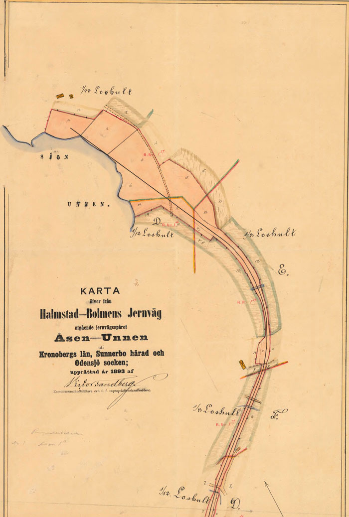 Railway map of Halmstad-Bolmens Jernväg